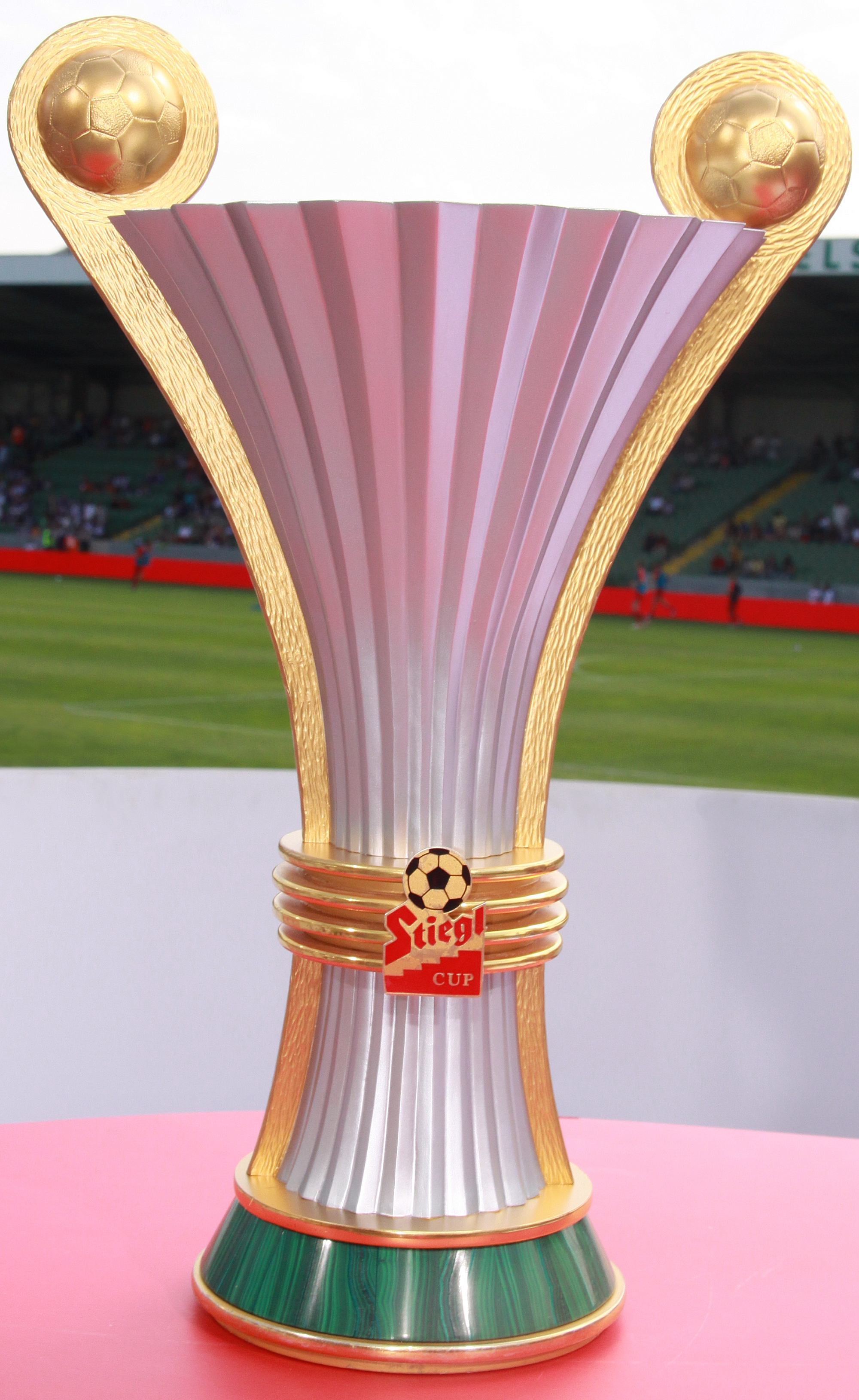 The winner's trophy of the Austrian Cup since 2004.